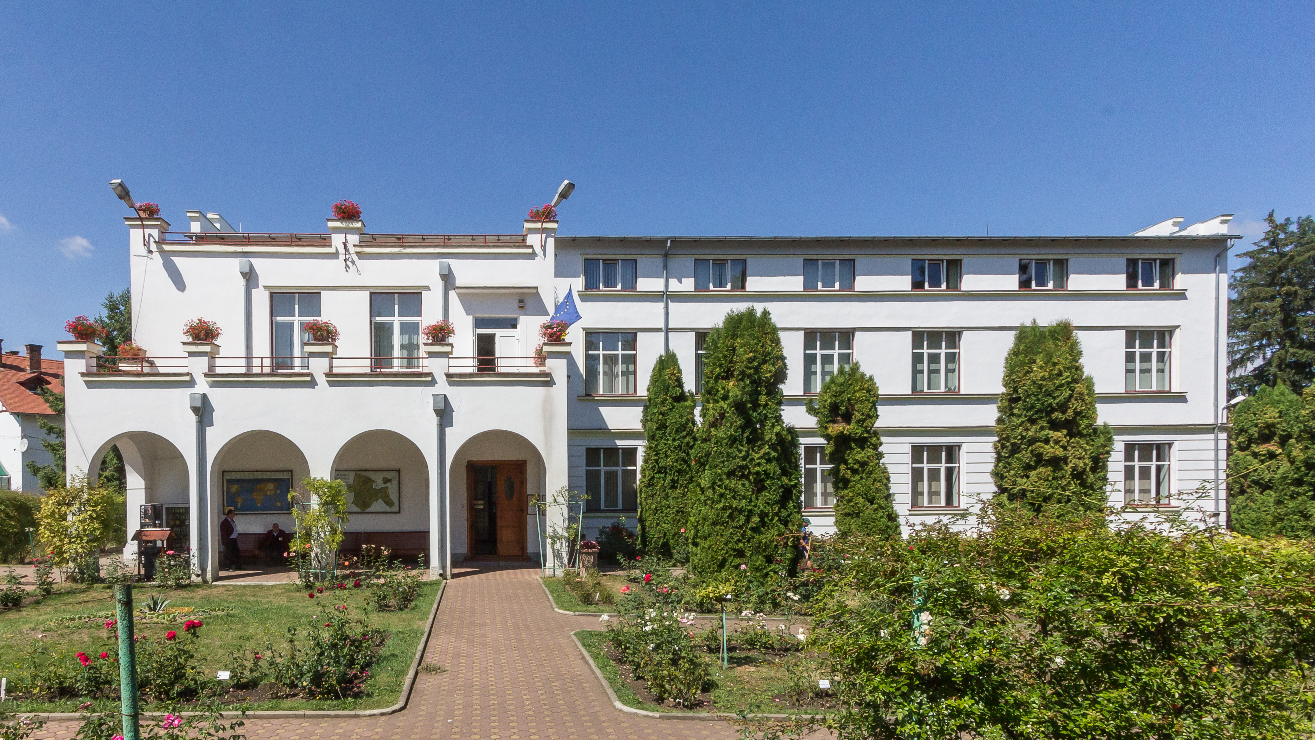 Botanical Institute, inside the Botanical Museum, Cluj-Napoca